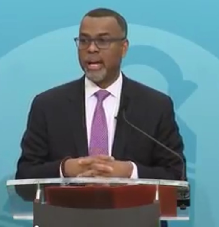 Eddie Glaude speaks to the City Club of Cleveland